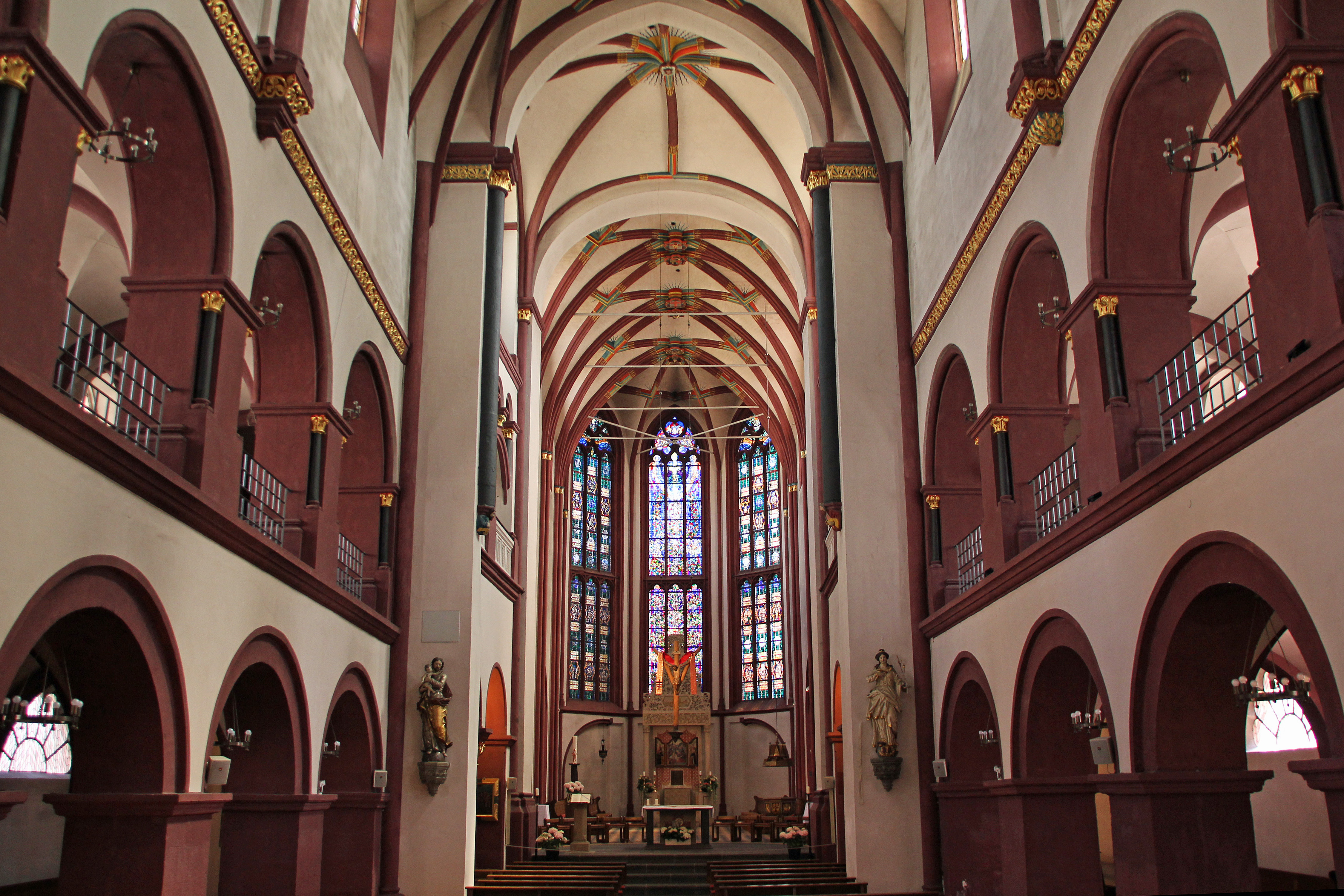 Liebfrauenkirche in Koblenz